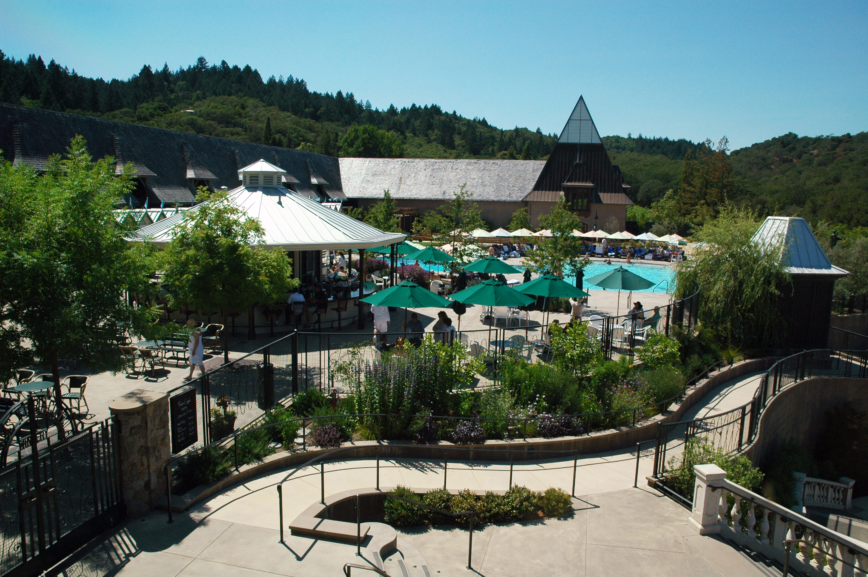 Entrance, terrace, pool and adjacent buildings, Francis Ford Coppola Winery, Geyserville, California